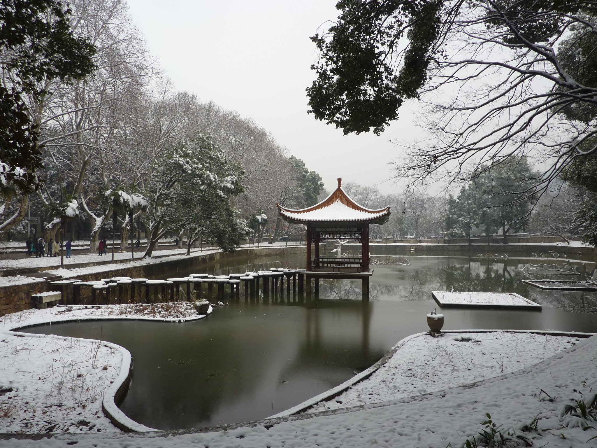 A road on the campus of the Huazhong University of Science and Technology in Wuhan, on a snow day.